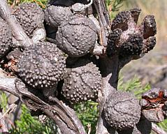 Scrub Cypress-pine (Callitris verrucosa) cones. Wyperfeld National Park, January 2004.